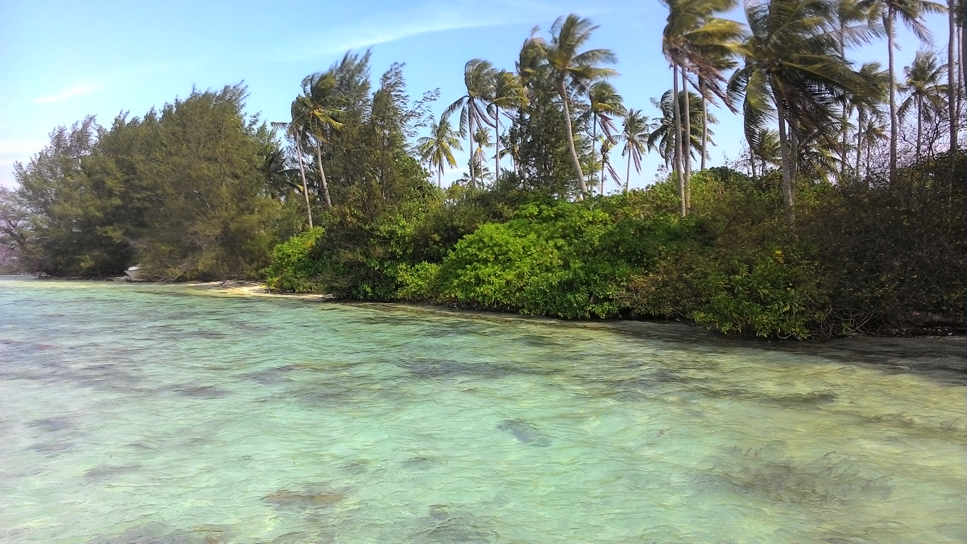 Trees on the eastern part of Menjangan Kecil, visible are coconuts (Cocos nucifera), Casuarina equisetifolia, Pemphis acidula, and also possibly Scaevola taccada (you can add if you know some). Photo was taken in July so the wind was blowing from the southeast.